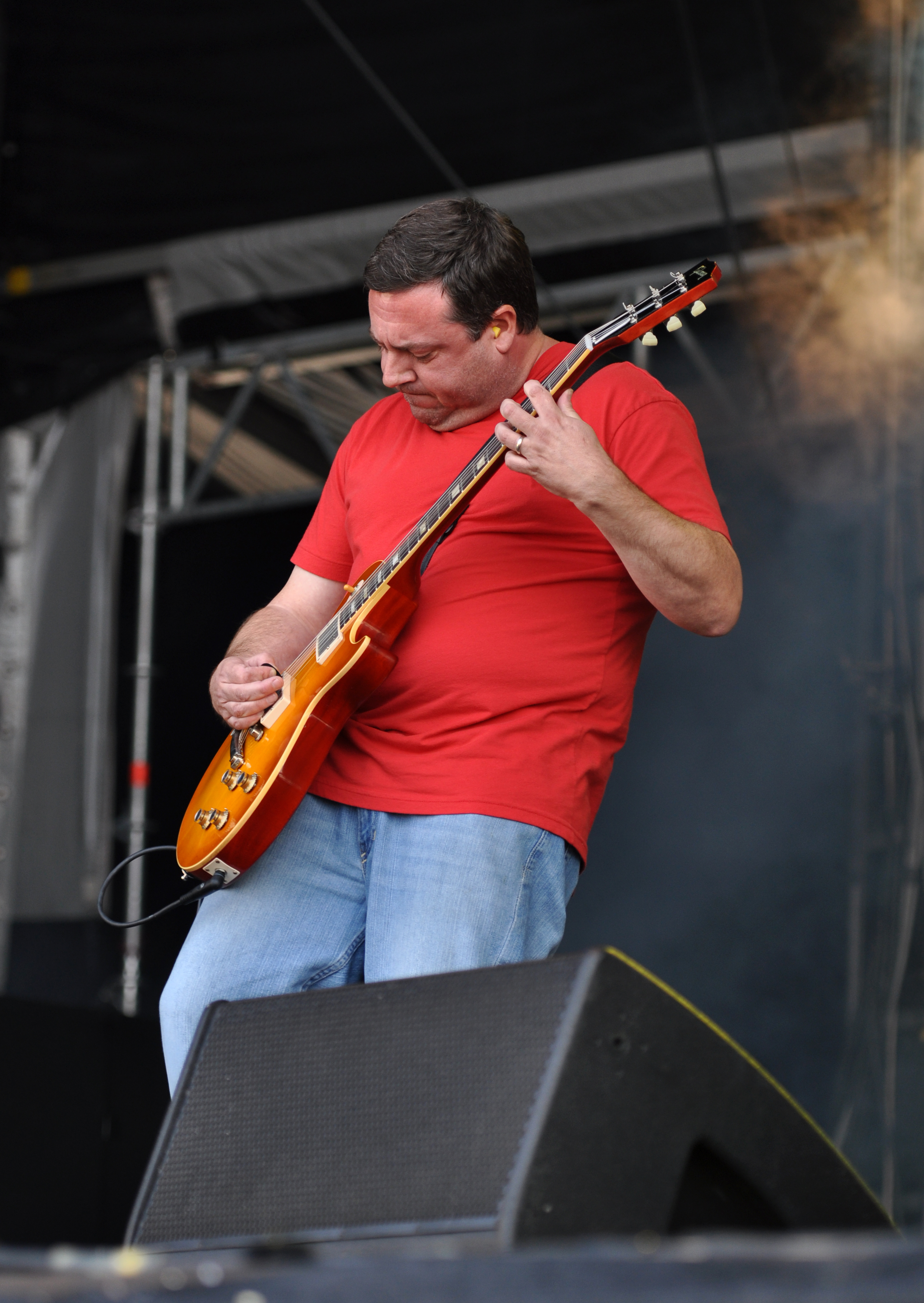 US stoner rock band Clutch at Rock am Ring 2013